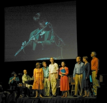 Aesthetic Realism Theatre Company performing in Las Vegas